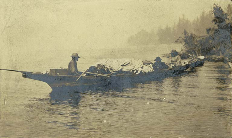 author: unknown Date: ca. 1885 Catalog notes: Chodups [sic] John, also called Lake Union John, was one of the few Duwamish people who didn't move from Seattle to the Port Madison Reservation. He and his family lived north of Seattle on Portage Bay, part of Lake Union. In this photo, Chodups [sic] John and several other people sit in a canoe on Lake Union. A mast sticks out beyond the vessel's notched prow. This Coast Salish canoe design was later replaced by the Nuu-chah-nulth (Nootkan) style from the Olympic Peninsula and Vancouver Island. Catalog subjects: Chodups [sic] John Duwamish Indians--Washington (State)--Seattle Duwamish Indians--Transportation Canoes--Duwamish Indians Canoes--Coast Salish Indians Canoes--Washington (State)--Seattle at or copyrights Original title: "Chudups John and others in a canoe on Lake Union, Seattle, ca. 1885" Physical Description: Silver gelatin print Negative Number: SHS 2228 Collection: Seattle Historical Society Collection Repository: Museum of History and Industry, Seattle Acquisition: Gift of the estate of Sophie Frye Bass; acc. no. 2228 [Subject aka Lake John, Lake Union John, Cheshiahud or Cheslahud, Lake John Cheshiahud, or Chudups John] --GoDot 07:42, 18 July 2006 (UTC)